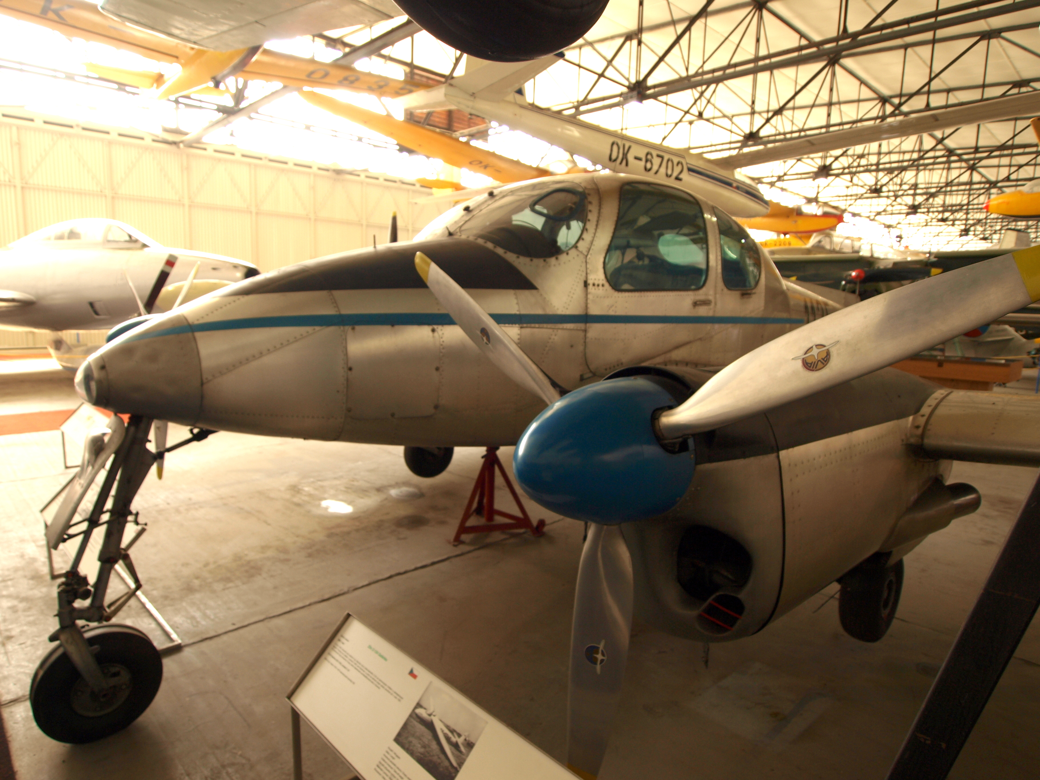 Aerotaxi Let L-200 Morava. Photograph taken without a tripod (was not allowed!).